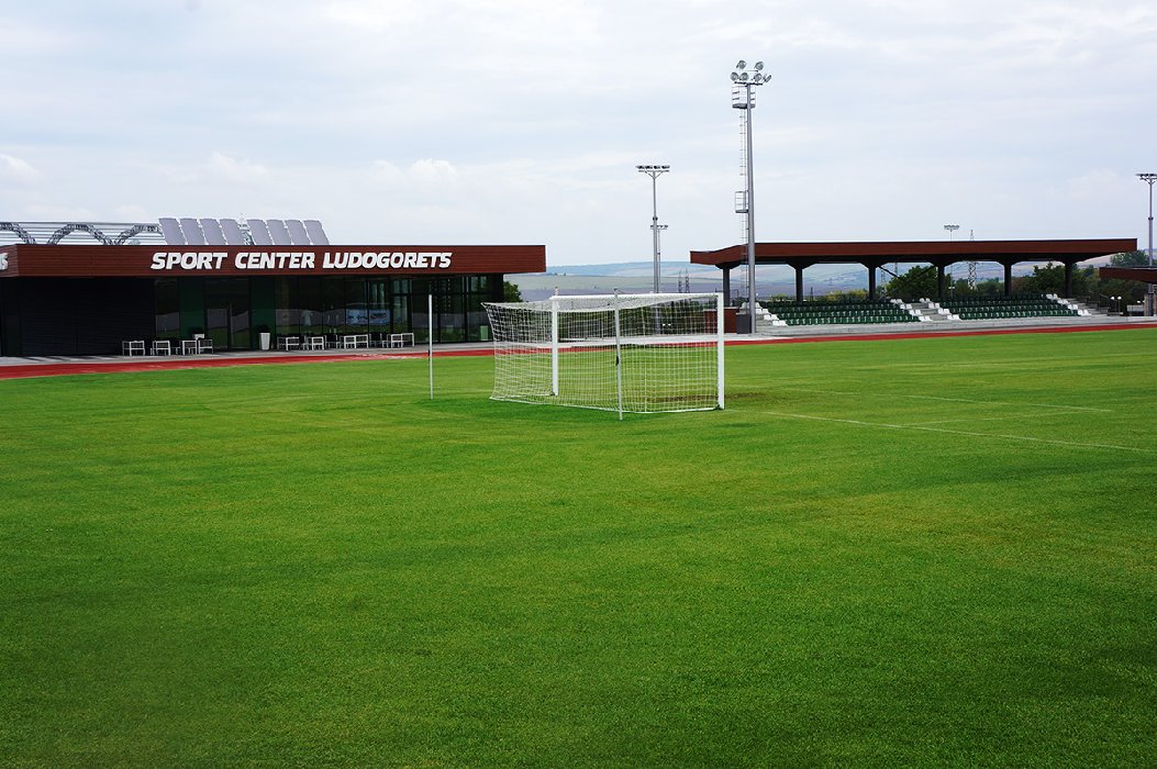 Sport Center Ludogorets The „Ludogorets" training base